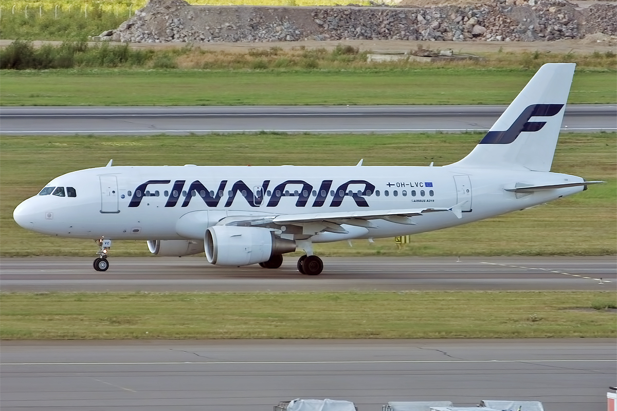 Finnair, OH-LVC, Airbus A319-112